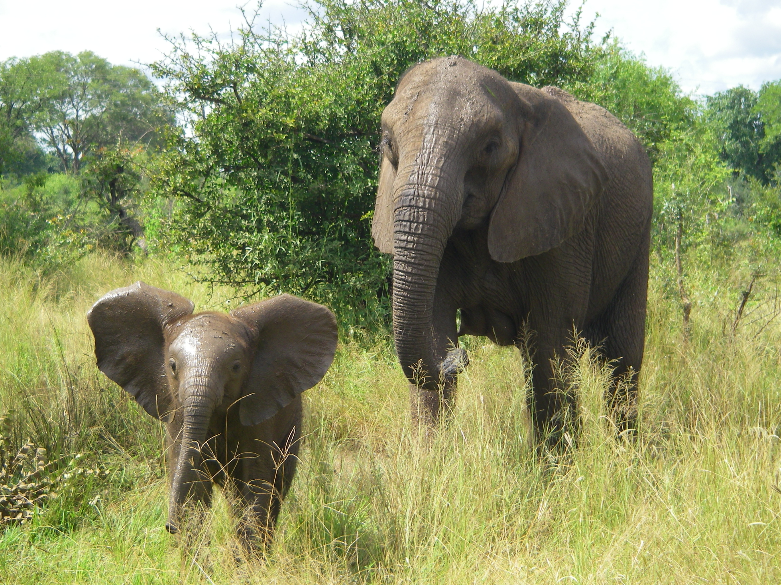 African elephant infant displaying his strength. Credit: Michelle Gadd/USFWS